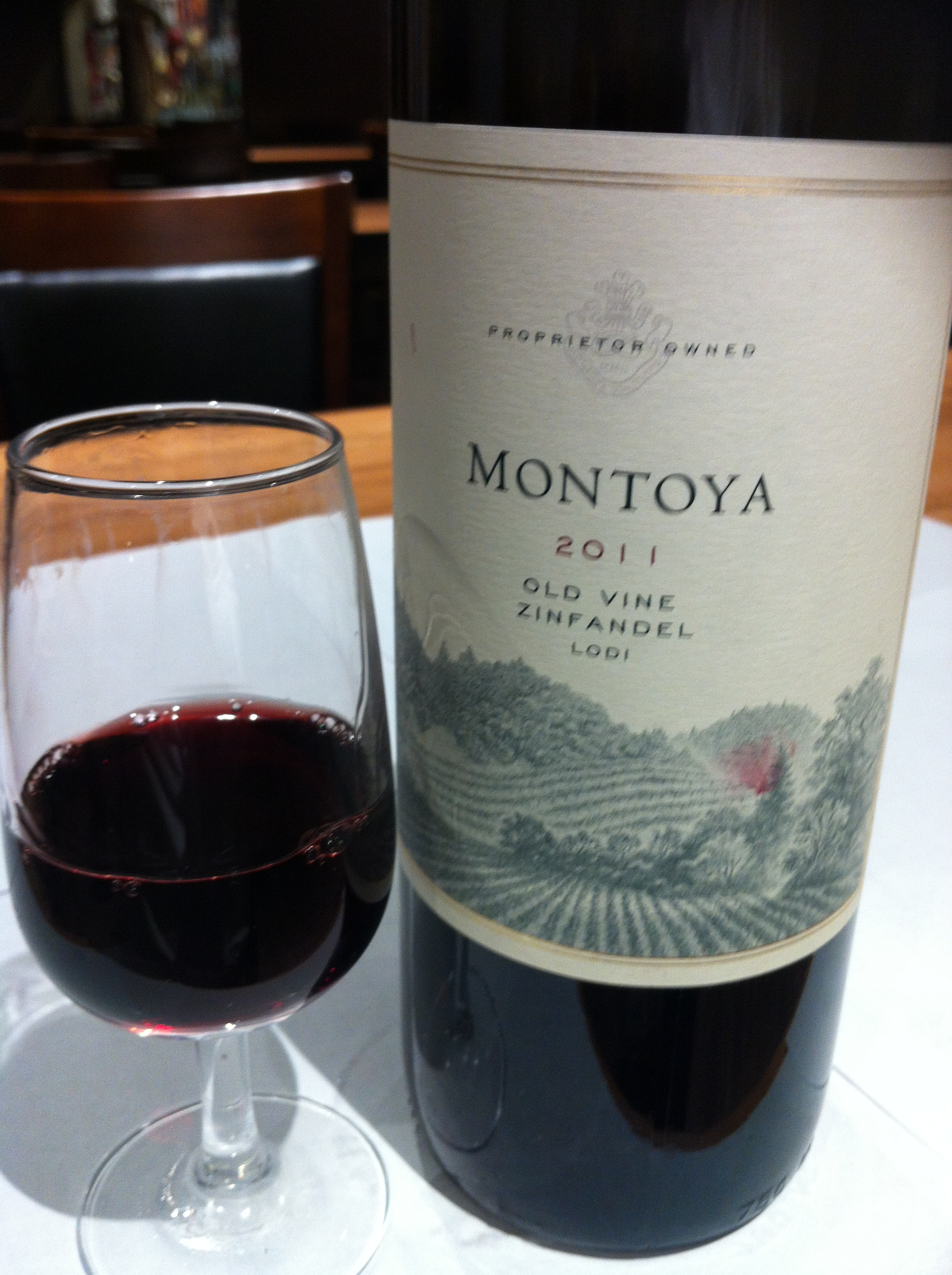 California Zinfandel wine from the Lodi region